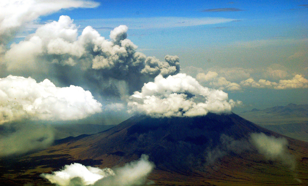 Ol Doinyo Lengai Volcano erupting mountain in Tanzania. Spectacular view from Cessna.